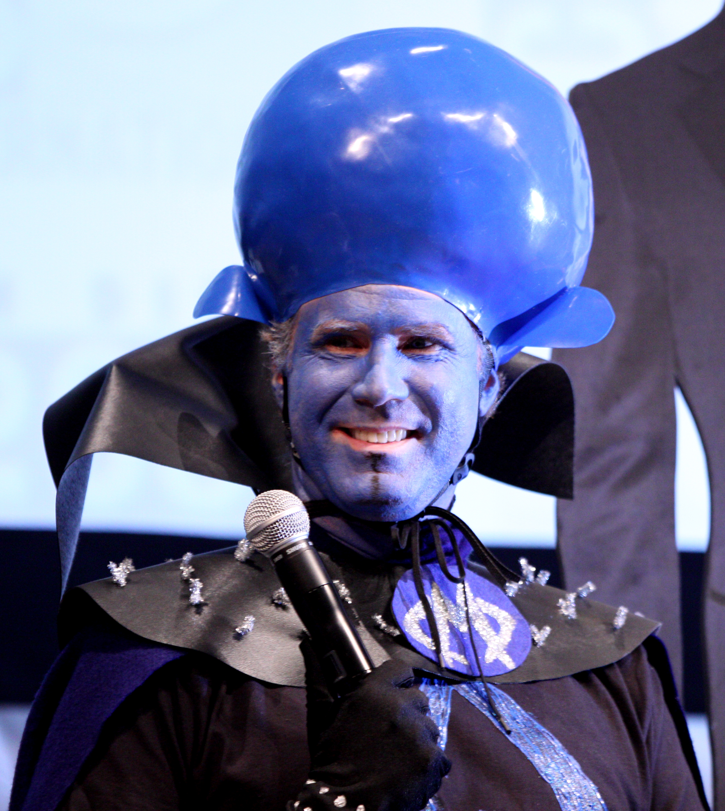 Will Ferrell dressed as one of his animated characters, Megamind, at the 2010 Comic Con in San Diego